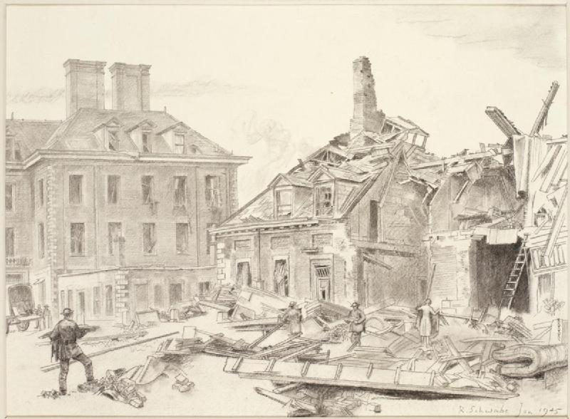 Scene of two buildings after a V2 bomb strike. The building on the left is largely intact, except its windows have been blown out. Only half of the building on the right remains standing, with damage to its roof and chimney, while the other half is completely demolished. A nurse and fireman make their way through the rubble.